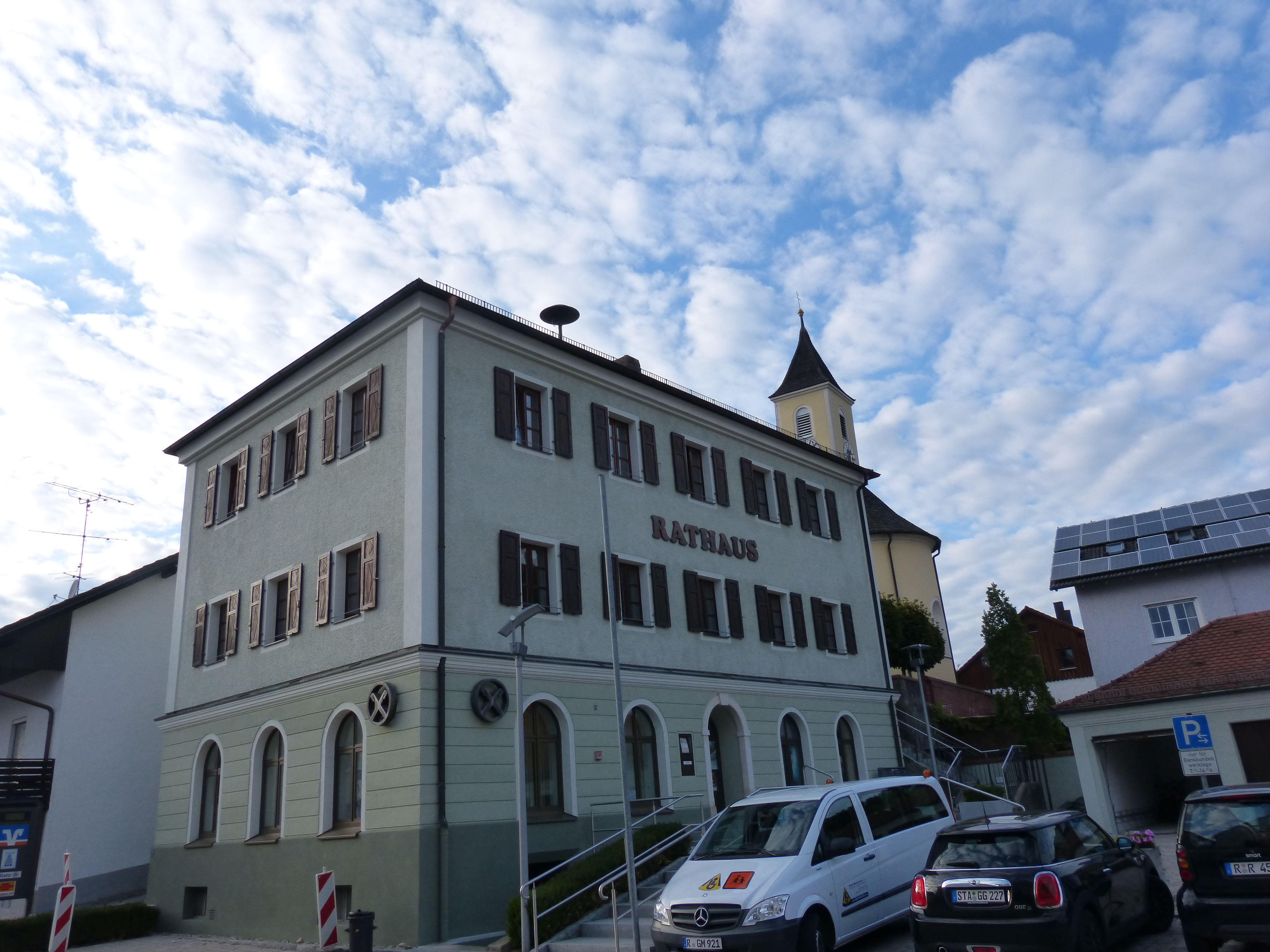 This is a photograph of an architectural monument.